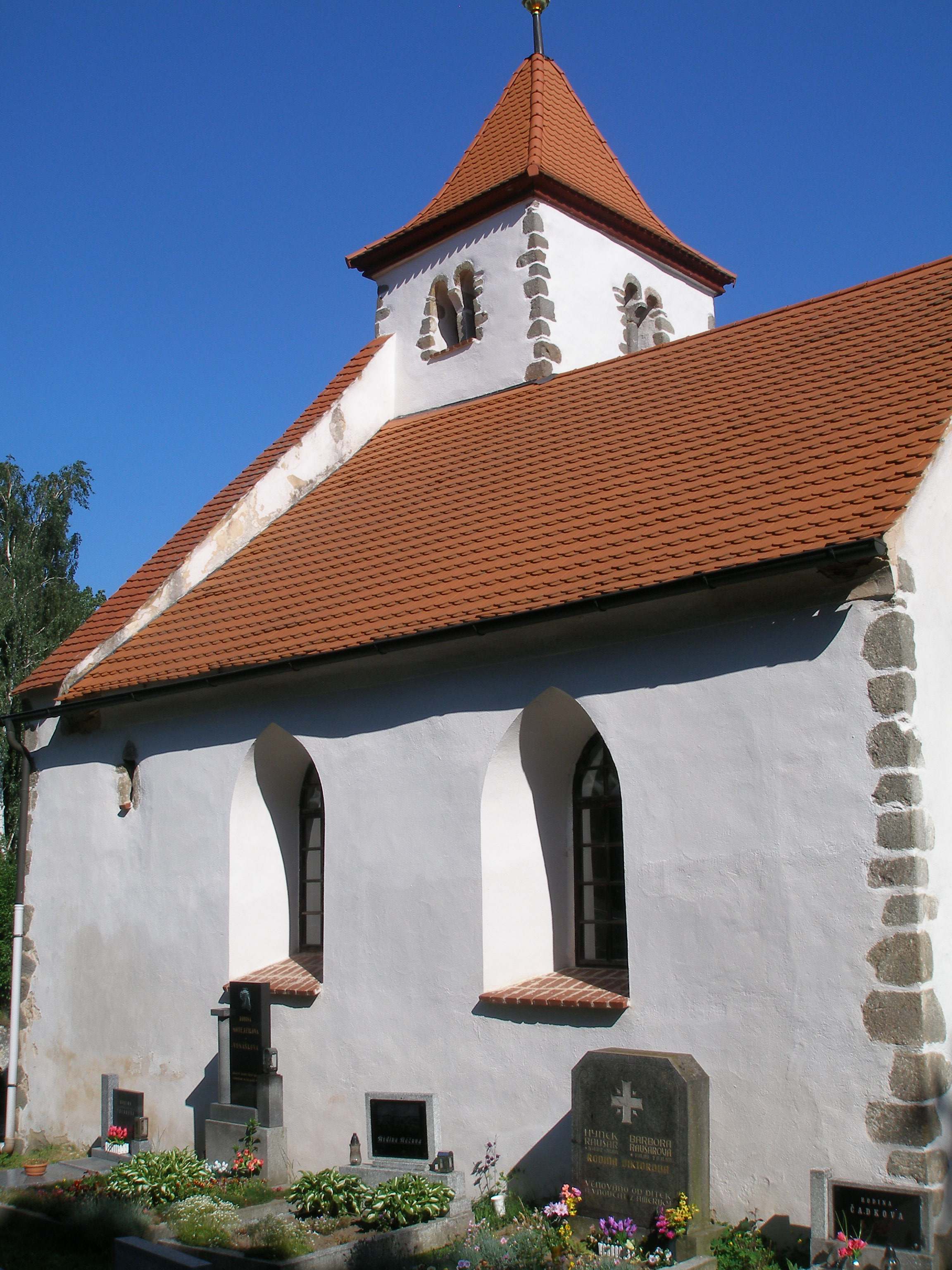 Újezdec - the southern wall of the Saint Ursula church